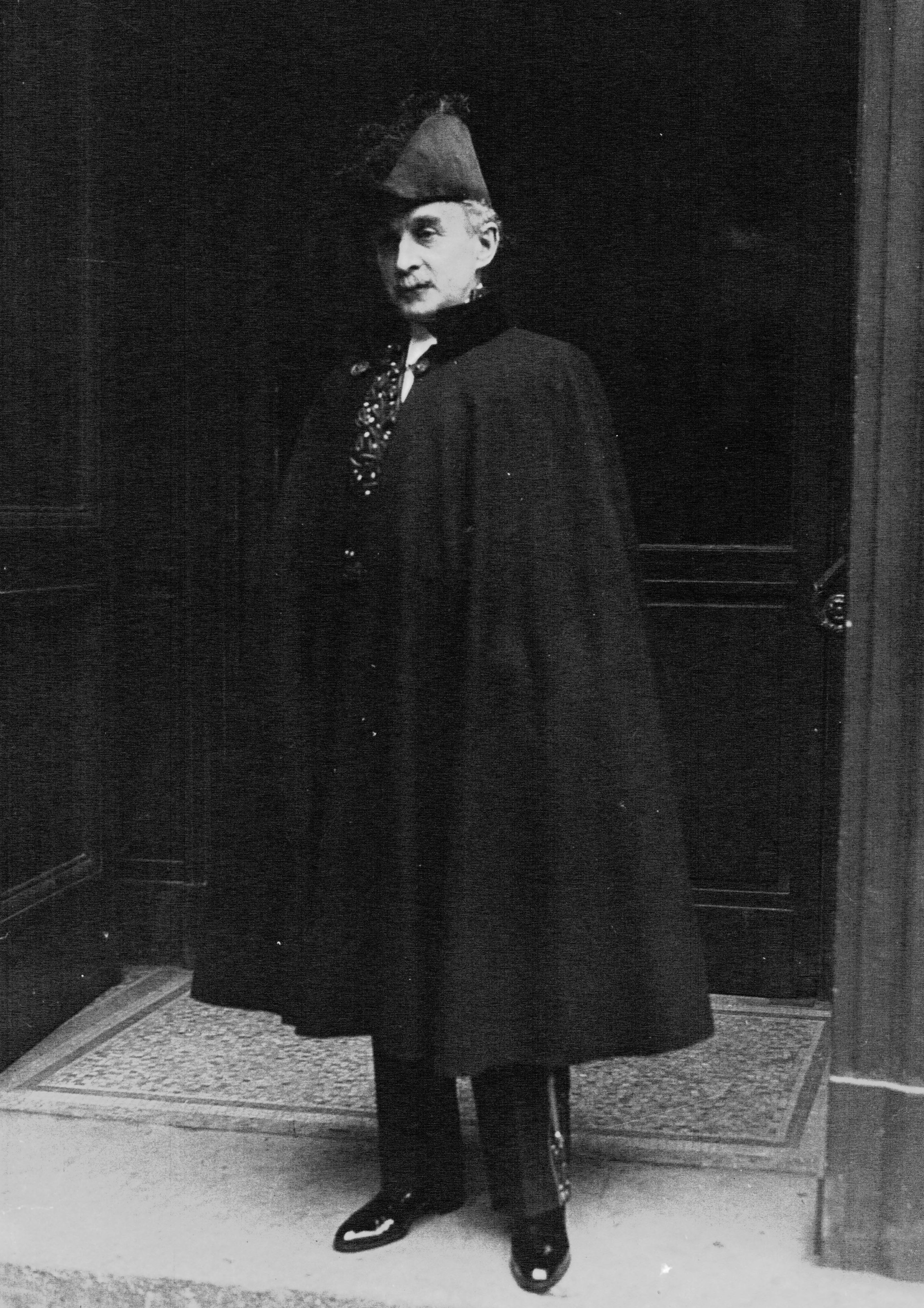 French novelist, poet, and politician of the Vichy regime, Abel Bonnard (1883-1968) on his reception at the Académie française in 1933.